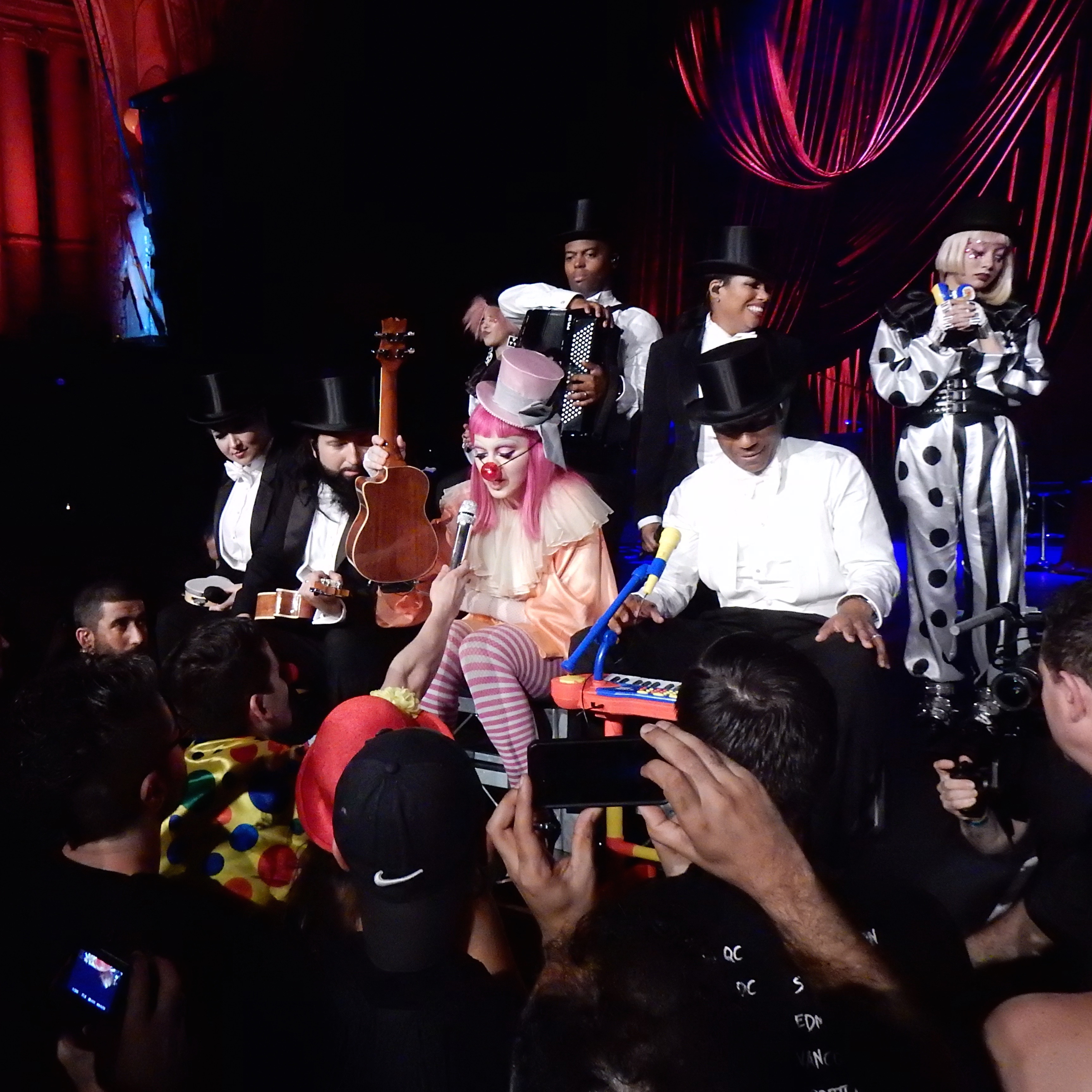 Special fan only show at The Forum, Melbourne, 10 March 2016